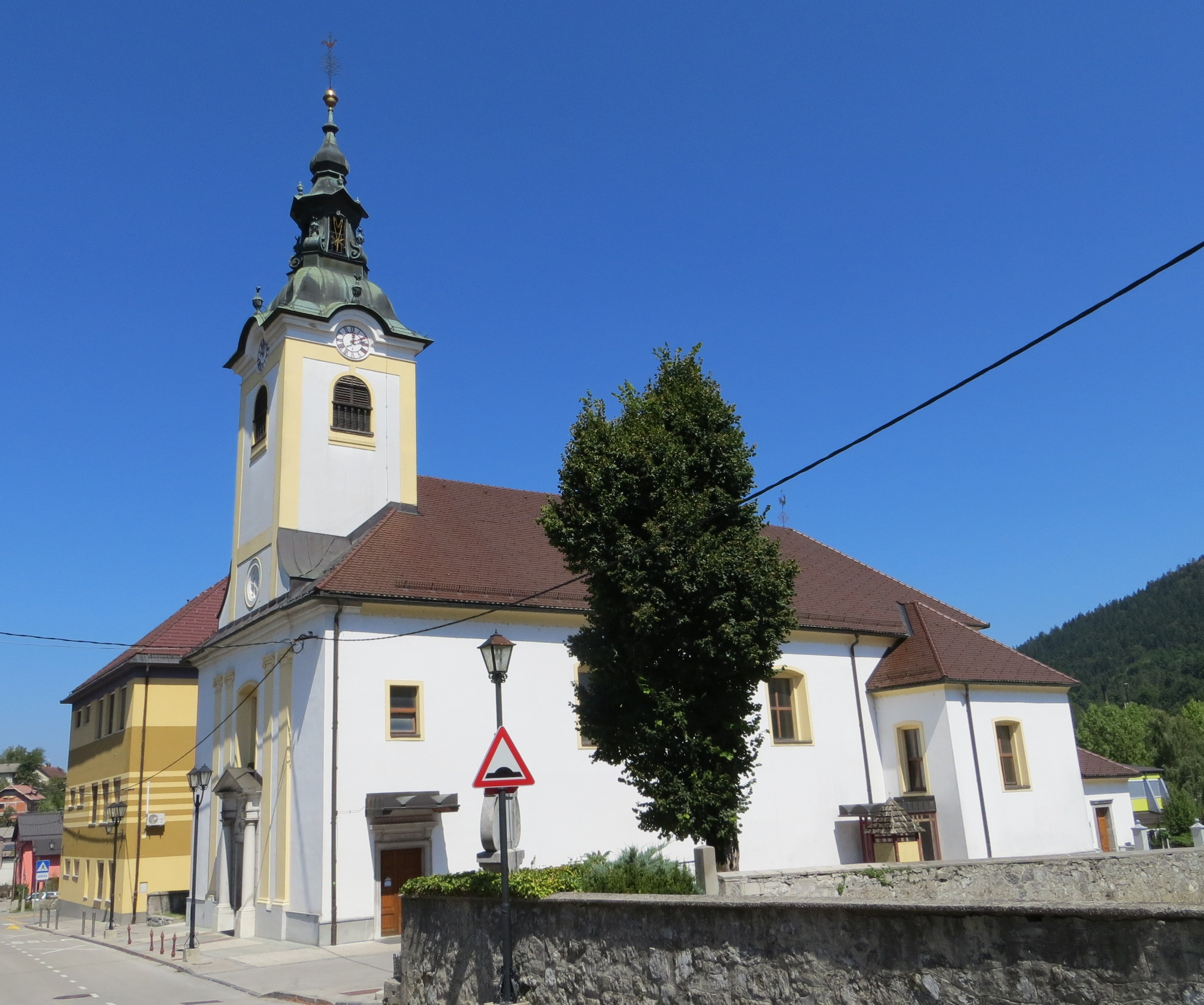 Church in Borovnica, Municipality of Borovnica, Slovenia